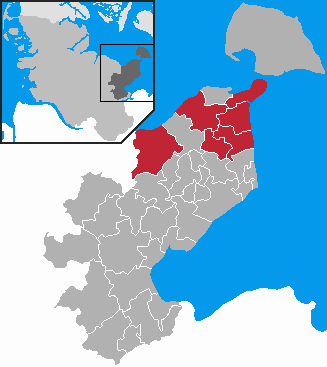 This map shows the area of the Amt (county) Oldenburg-Land in the Kreis (district) Ostholstein, Schleswig-Holstein, Germany.